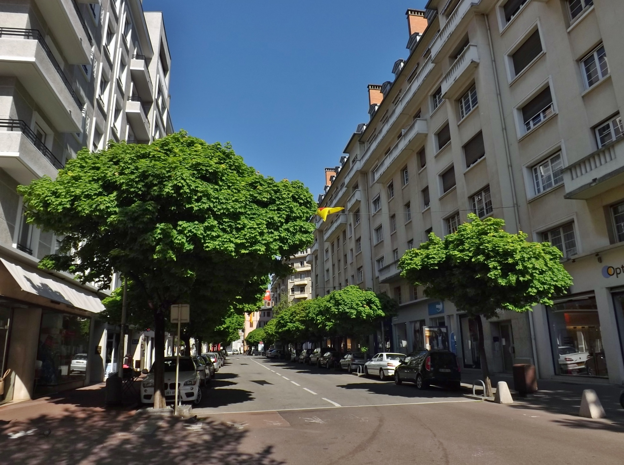 Sight of the rue Favre street of Chambéry (Savoie, France) and its buildings built after the 1944 bombing.